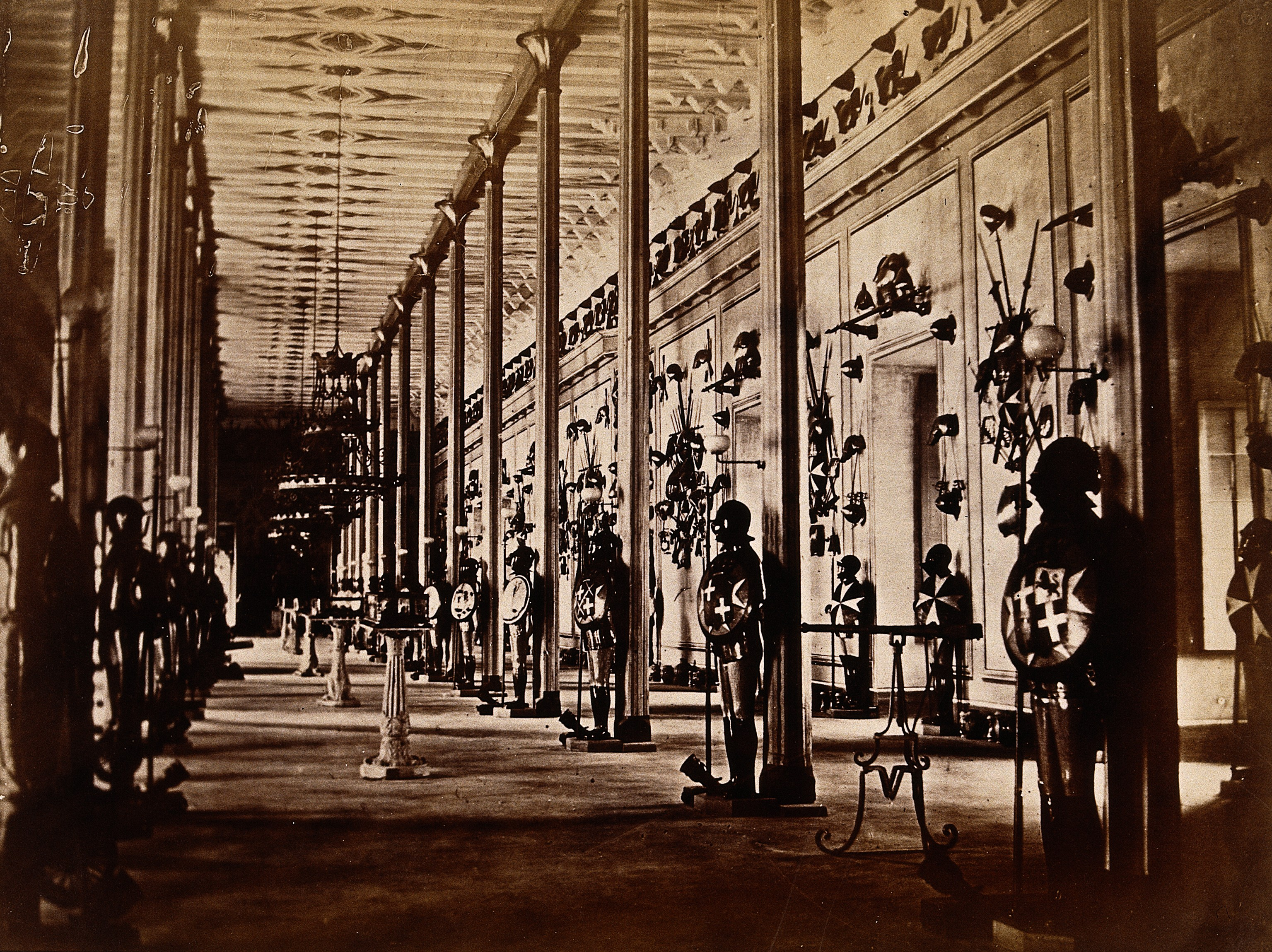 Malta: the armoury of the Governor's Palace. Photograph by H. Agius, c. 1881. Iconographic Collections Keywords: H. Agius